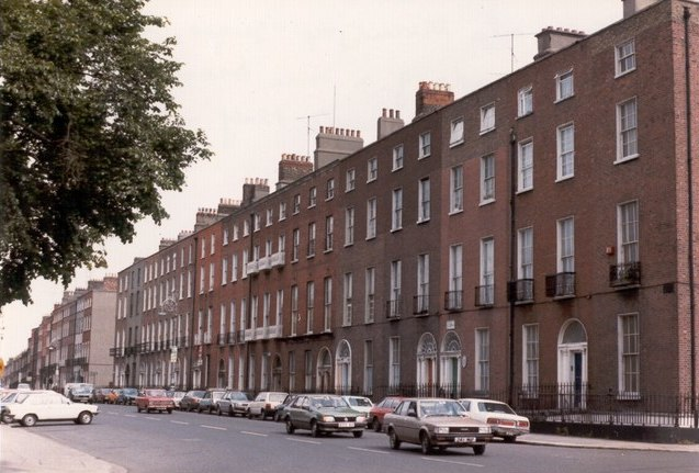 Merrion Square, Dublin The square was laid out between 1762-64. On three sides it has some of the finest examples of Georgian architecture in Dublin. Until fifty years ago it was a residential area, but today is part of the business area of the city. The interior of the buildings retain a wealth of Georgian decoration, many with magnificent ceiling platerwork, ornate fireplaces and staircases